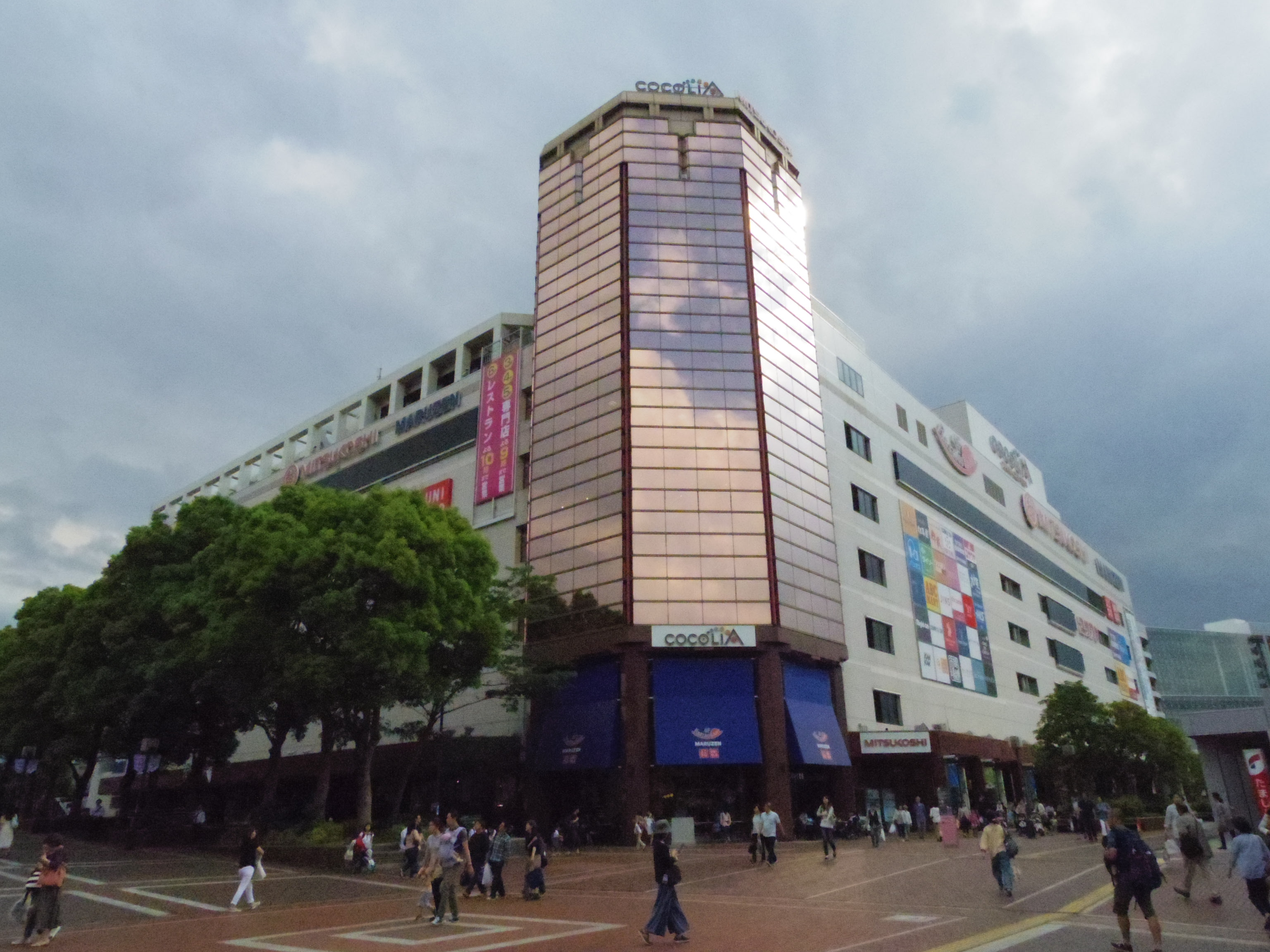 Cocolia Tama Center